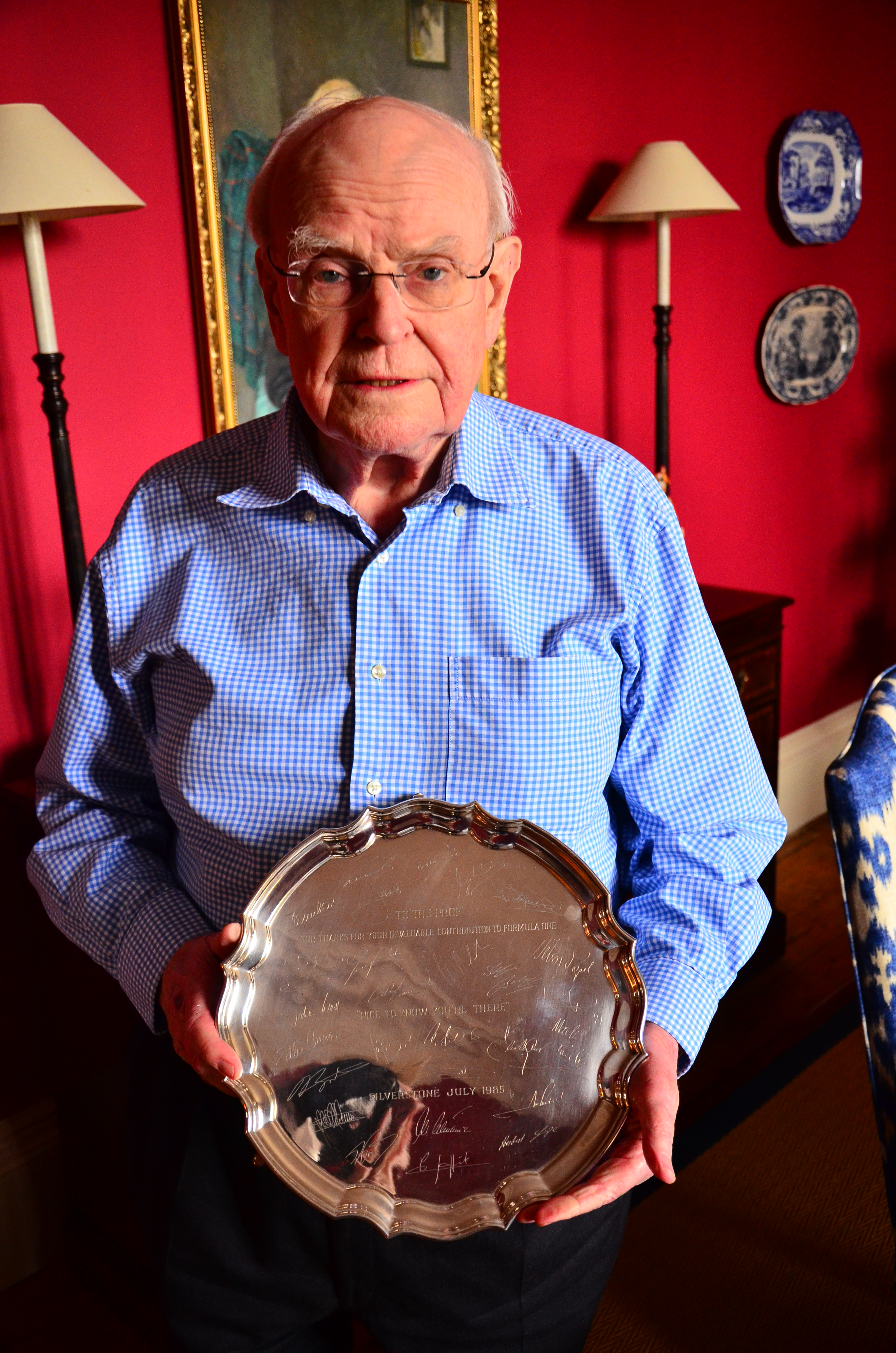 Signed by Michele Alboreto, Philippe Alliot, Mario Andretti, Stefan Bellof, Gerhard Berger, Thierry Boutsen, Martin Brundle, Eddie Cheever, Elio de Angelis, Piercarlo Ghinzani, Francois Hesnault, Jacky Ickx, Stefan Johansson, Jacques Lafitte, Niki Lauda, Herbert Linge, Nigel Mansell, Jochen Mass, Jonathan Palmer, Riccardo Patrese, Nelson Piquet, Alain Prost, Keke Rosberg, Ayrton Senna, Patrick Tambay, Derek Warwick, Manfried Winkelhock